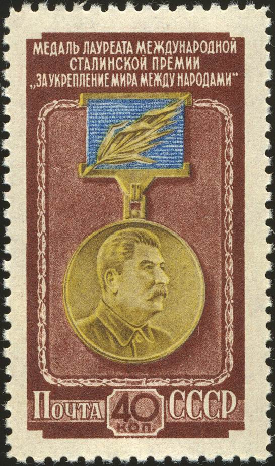 A USSR stamp, Awards of the Soviet Union: Stalin Peace Prize